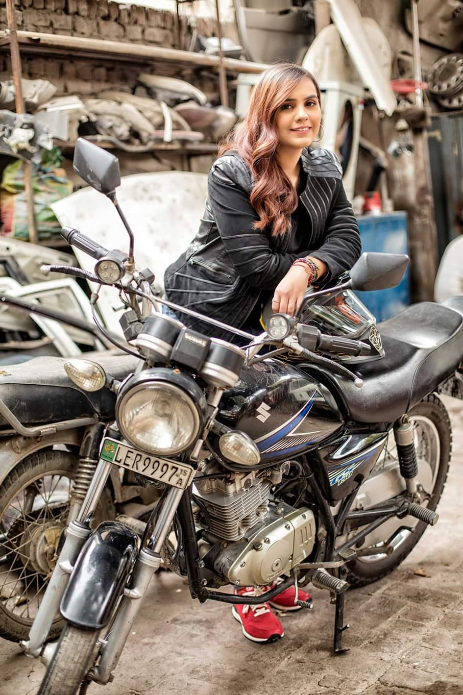 Zenith Irfan, Pakistan's first female motorcyclist to ride toughest parts of the country on a motorbike. The personality who's been honored by a Pakistani Biopic called "The Motorcycle Girl".